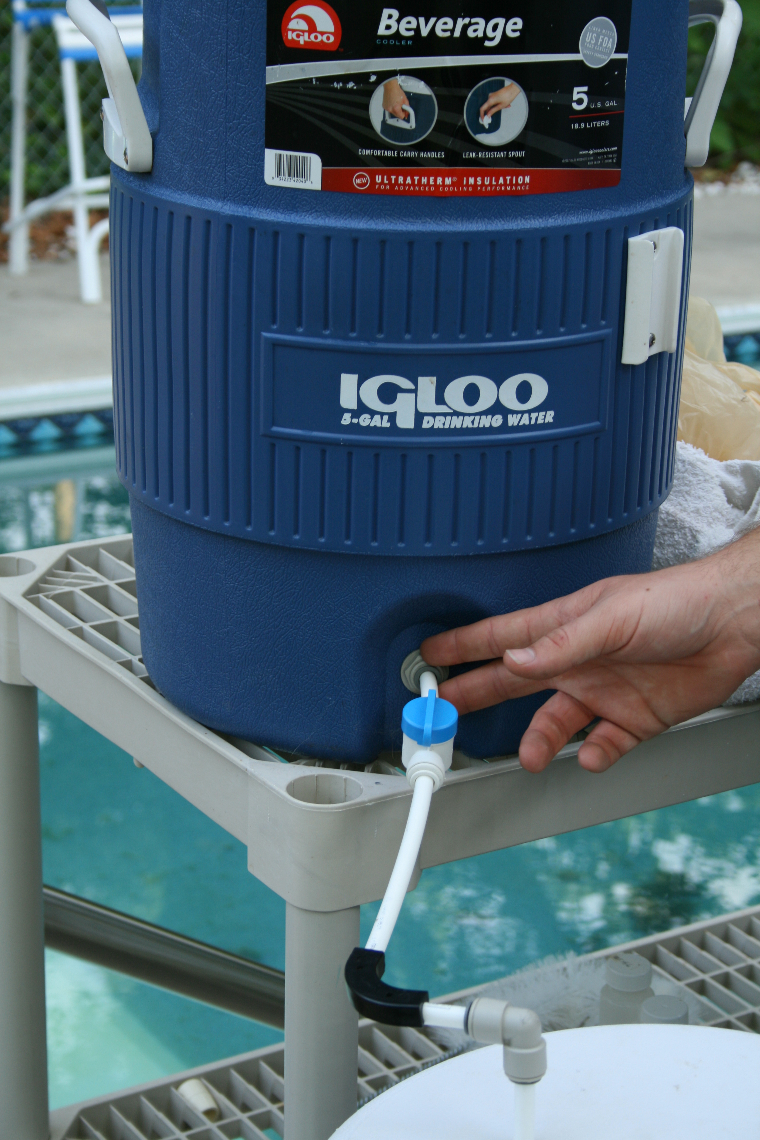 The Don points out the conduit and valve used to dispense warm water into the mash tun in his customised all-grain homebrew waterfall setup at the Brew Master Store at 1900 East Geer Street in Durham, North Carolina.